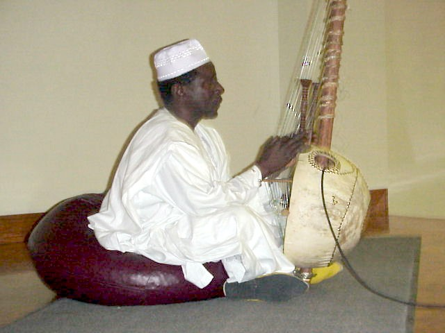 Papa Susso playing the kora at Truman State University